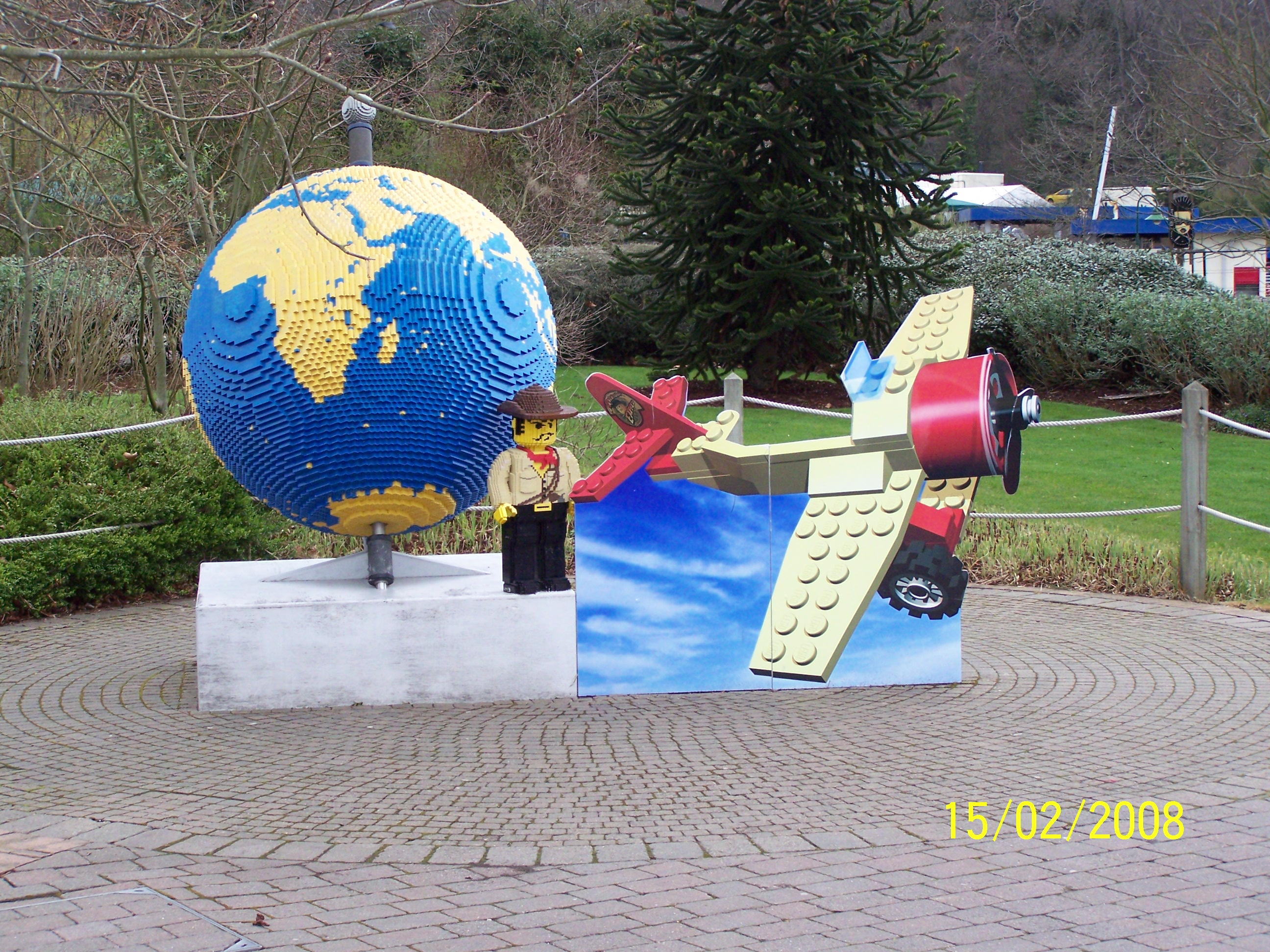 Johnny Thunder figure at LEGOLAND Windsor Park